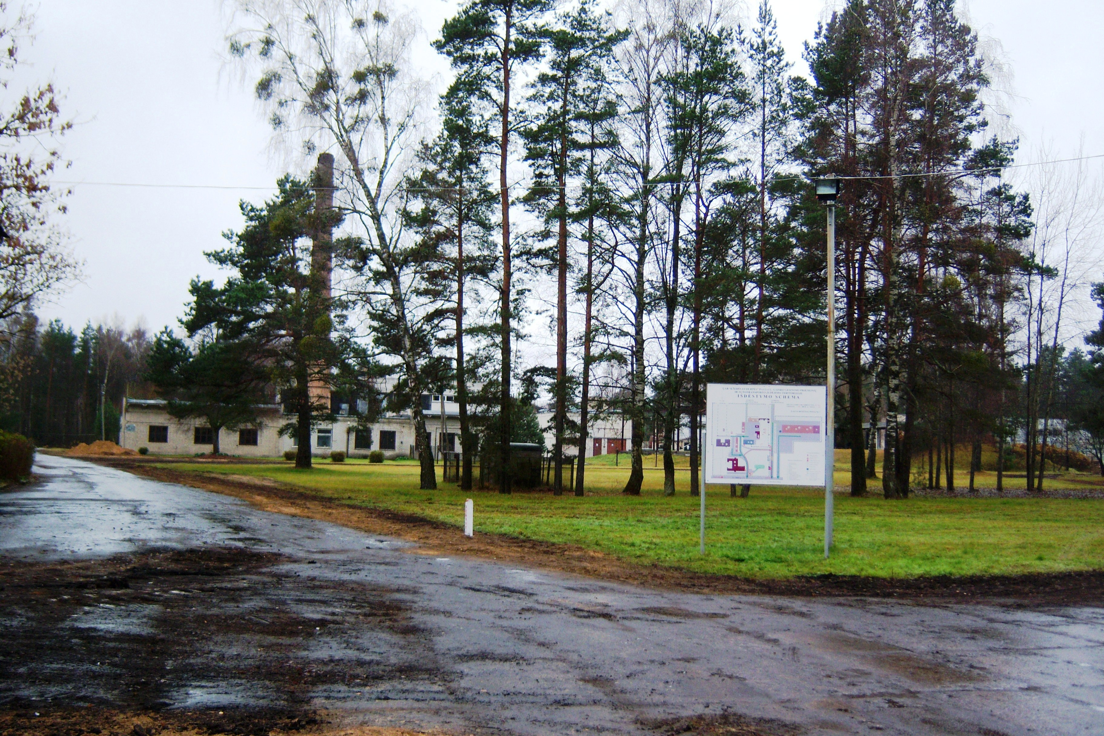 Ežerėlis, enterprise, Kaunas District. Lithuania